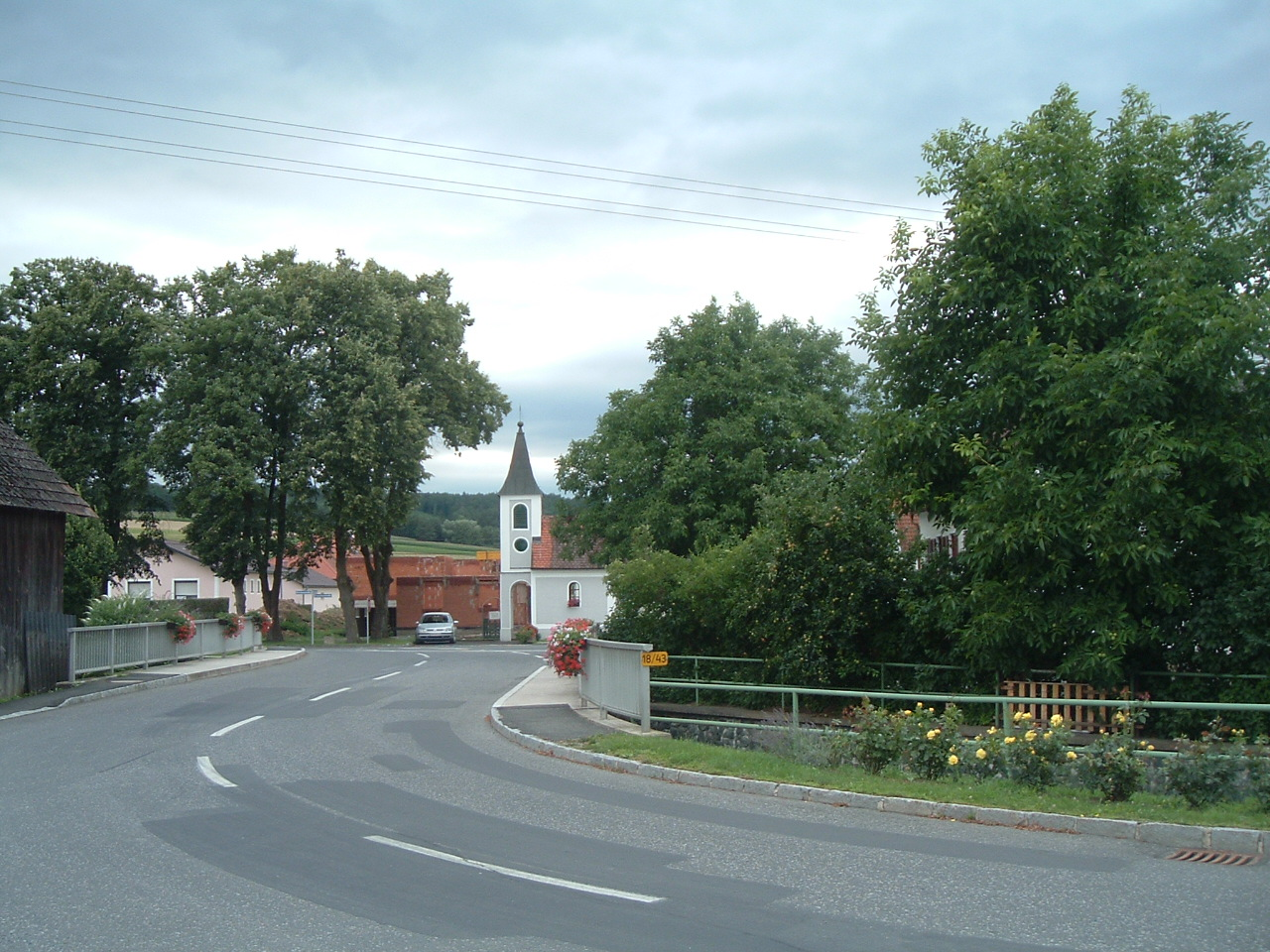 kleinbachselten, Burgenland